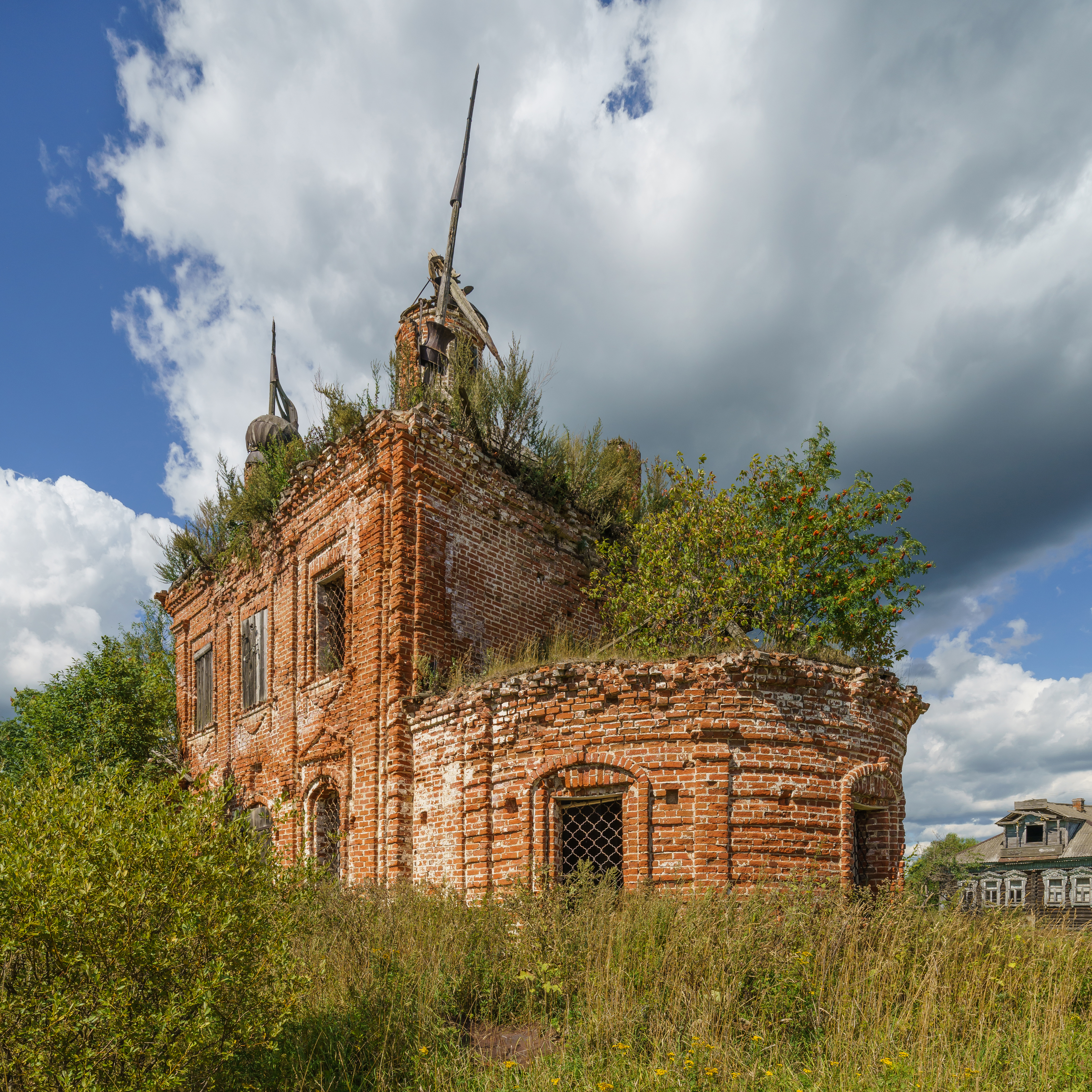 Ruined church of the Resurrection of Christ in Melyoshino, Ivanovo Oblast, Russia.